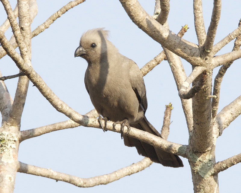 Grey Go-away-bird at Kwa Madwala Game Reserve, Mpumalanga, South Africa on 9th. October 2009 Range maps: [1], [2]